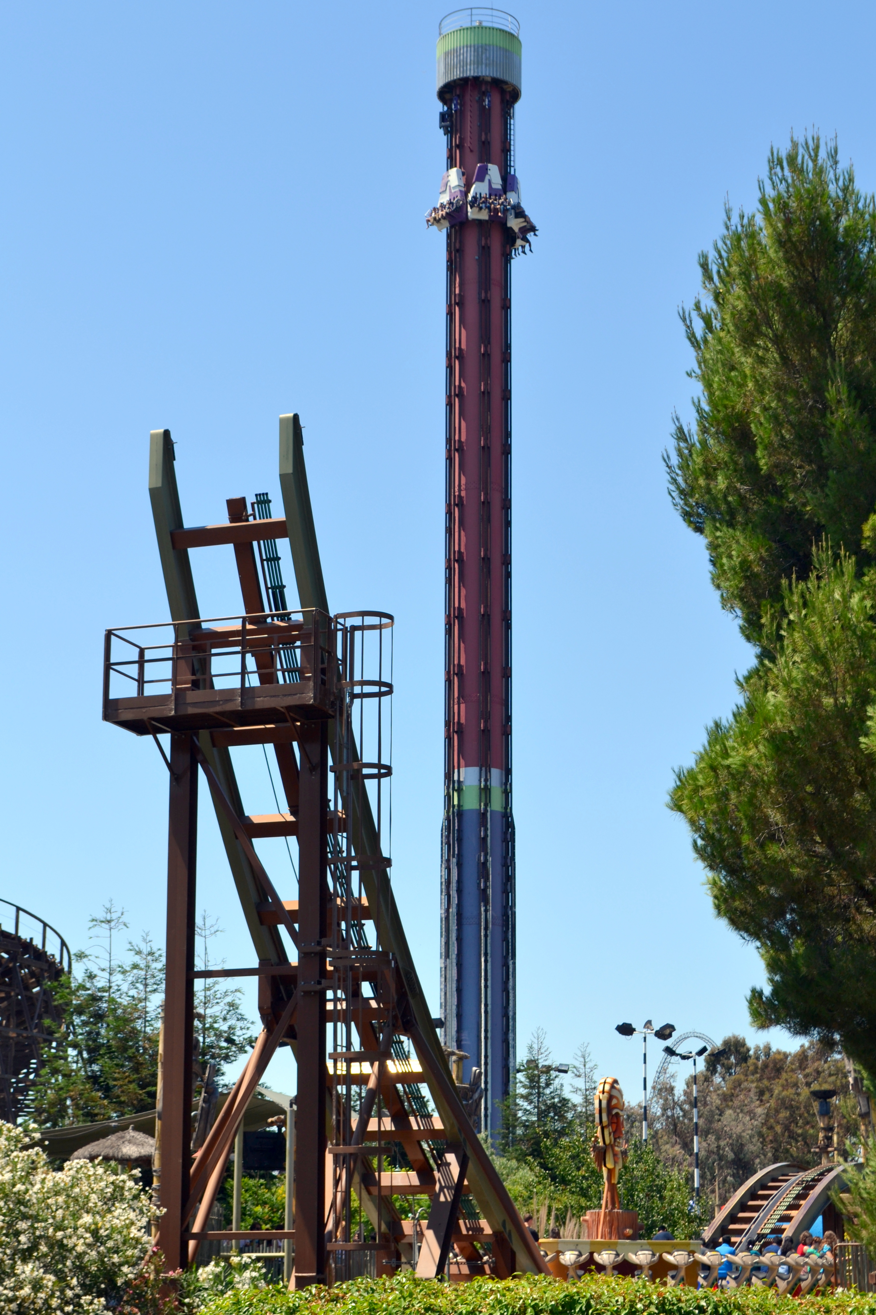 California's Great America